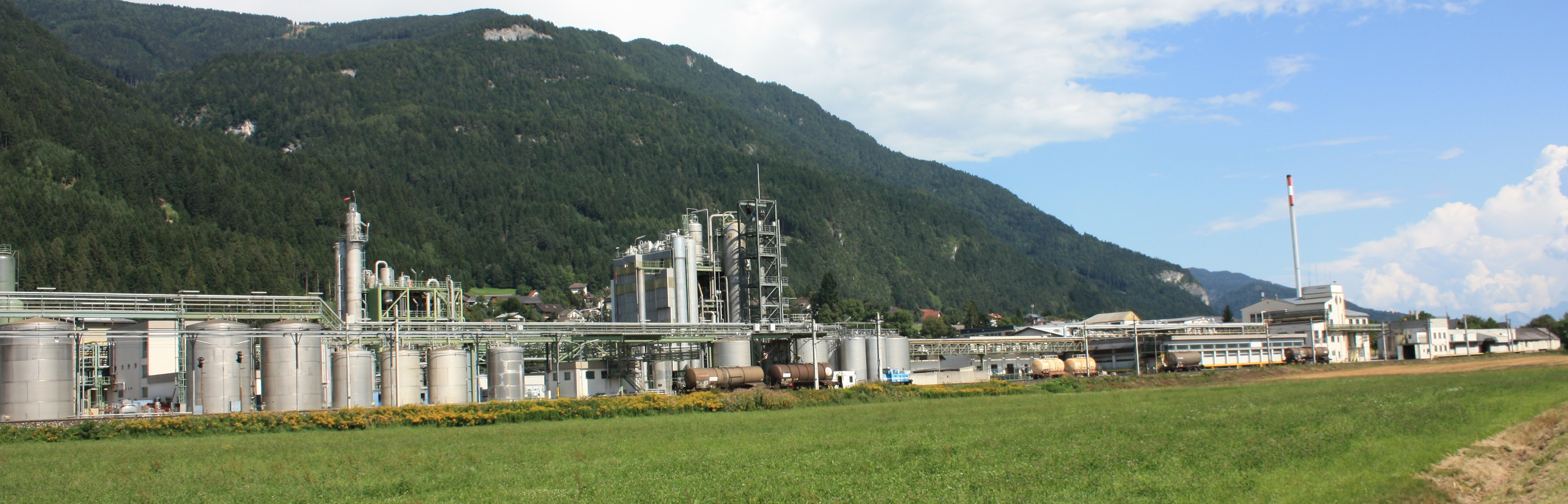 Chemical plant Degussa Locality: Weißenstein Community:Weißenstein